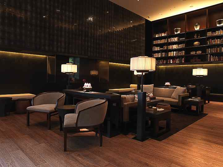 Stingray Leather Panels found in The PuLi Hotel and Spa